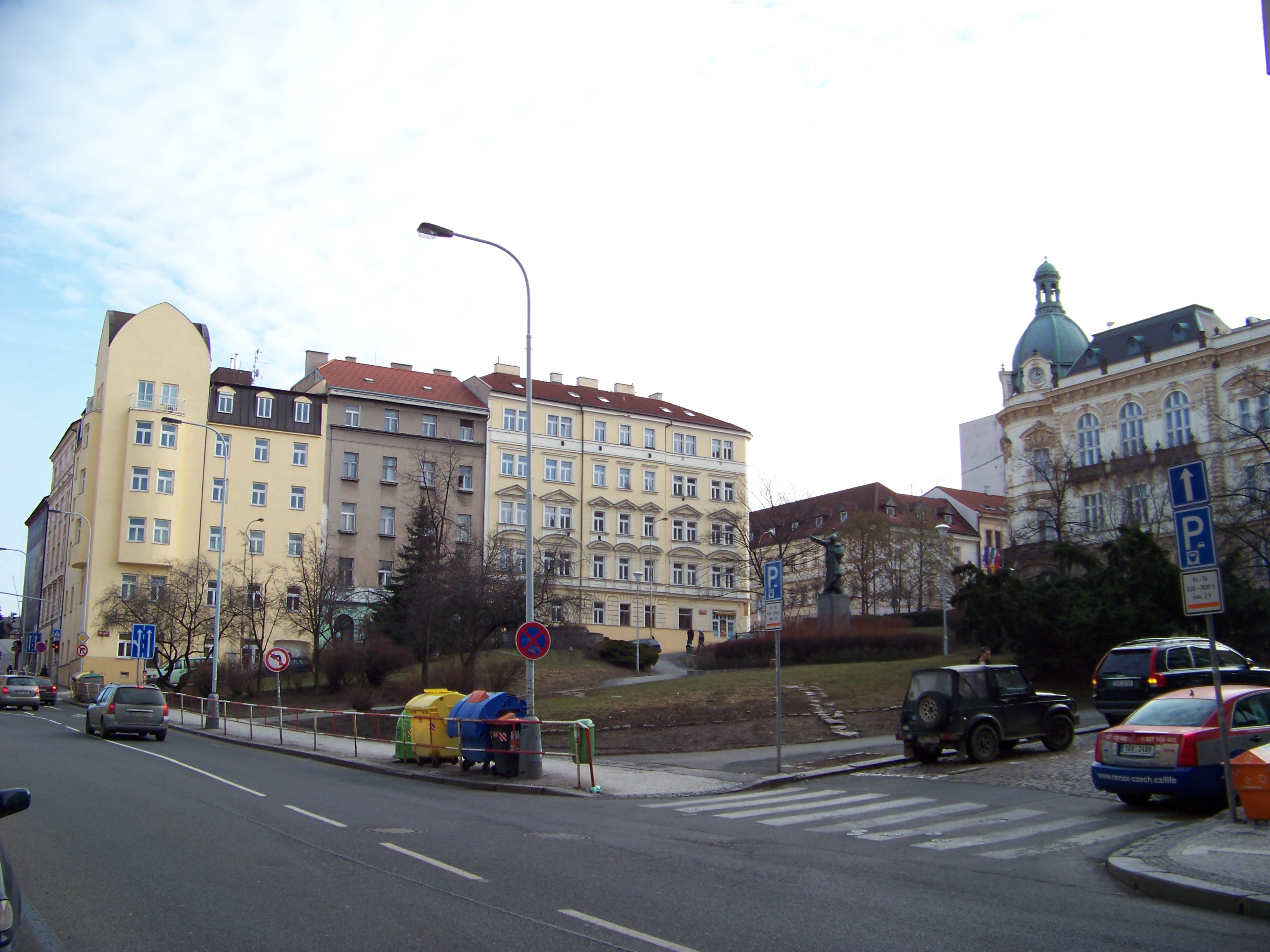 Prague-Žižkov, the Czech Republic. Prokopova street, Havlíček's Square. - Google Maps - Google Earth